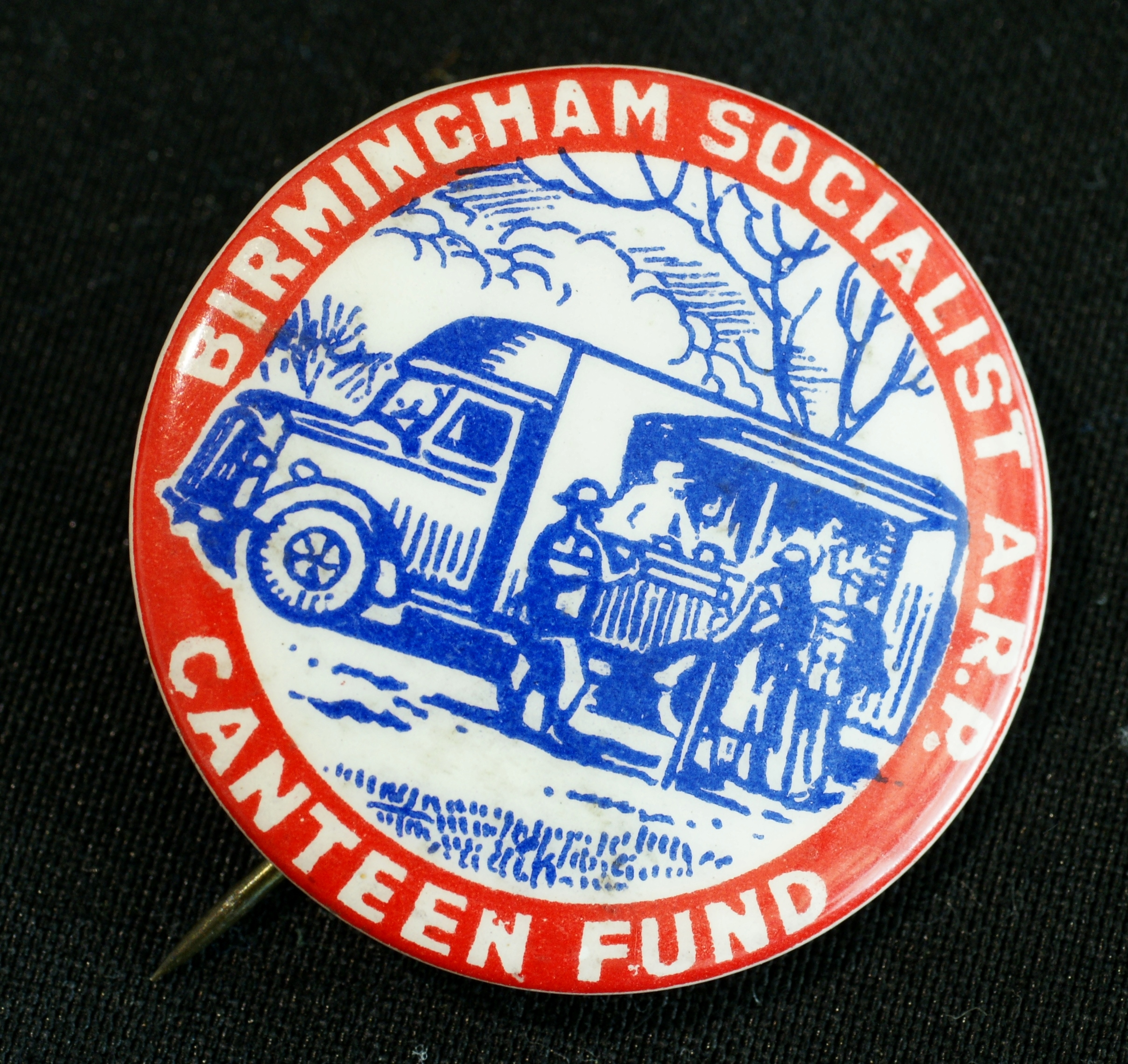 Images from ThinkTank by Sasha Taylor